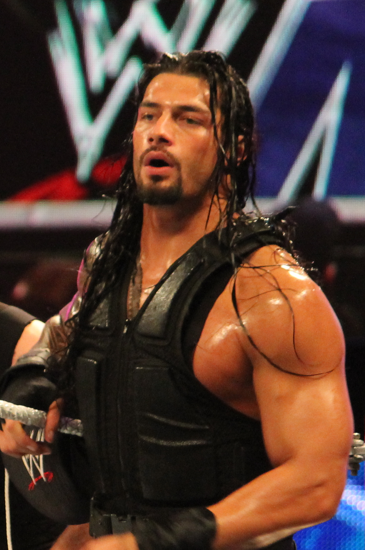 Roman Reigns at a WWE SmackDown / Main Event television taping in Lafayette, Louisiana on April 8, 2014. Cropped from original.